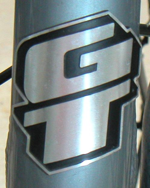 Taken by Andrew Dressel